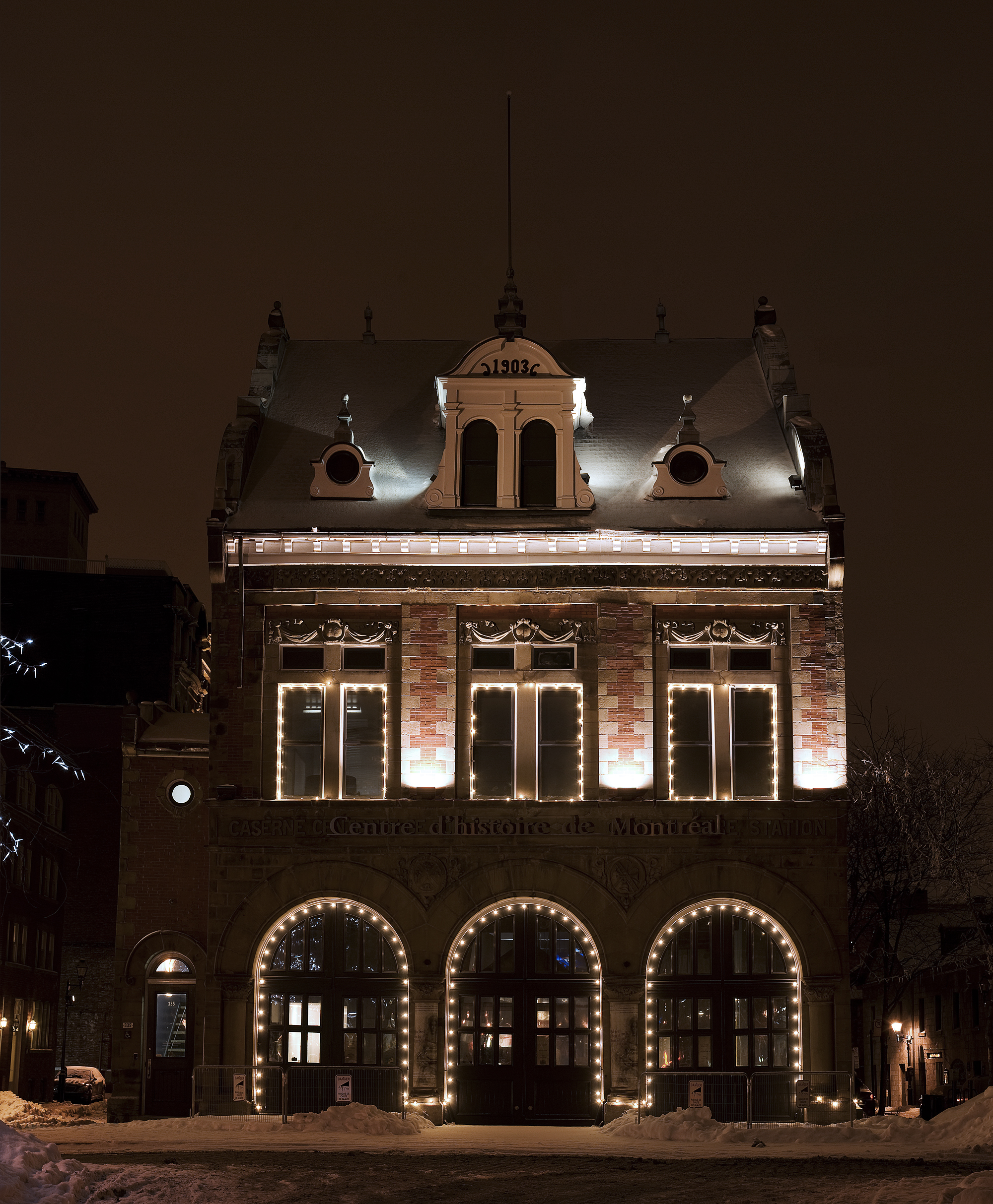 The Montreal History Center, housed since 1983 in the central firefighter's building built in 1903-1904.